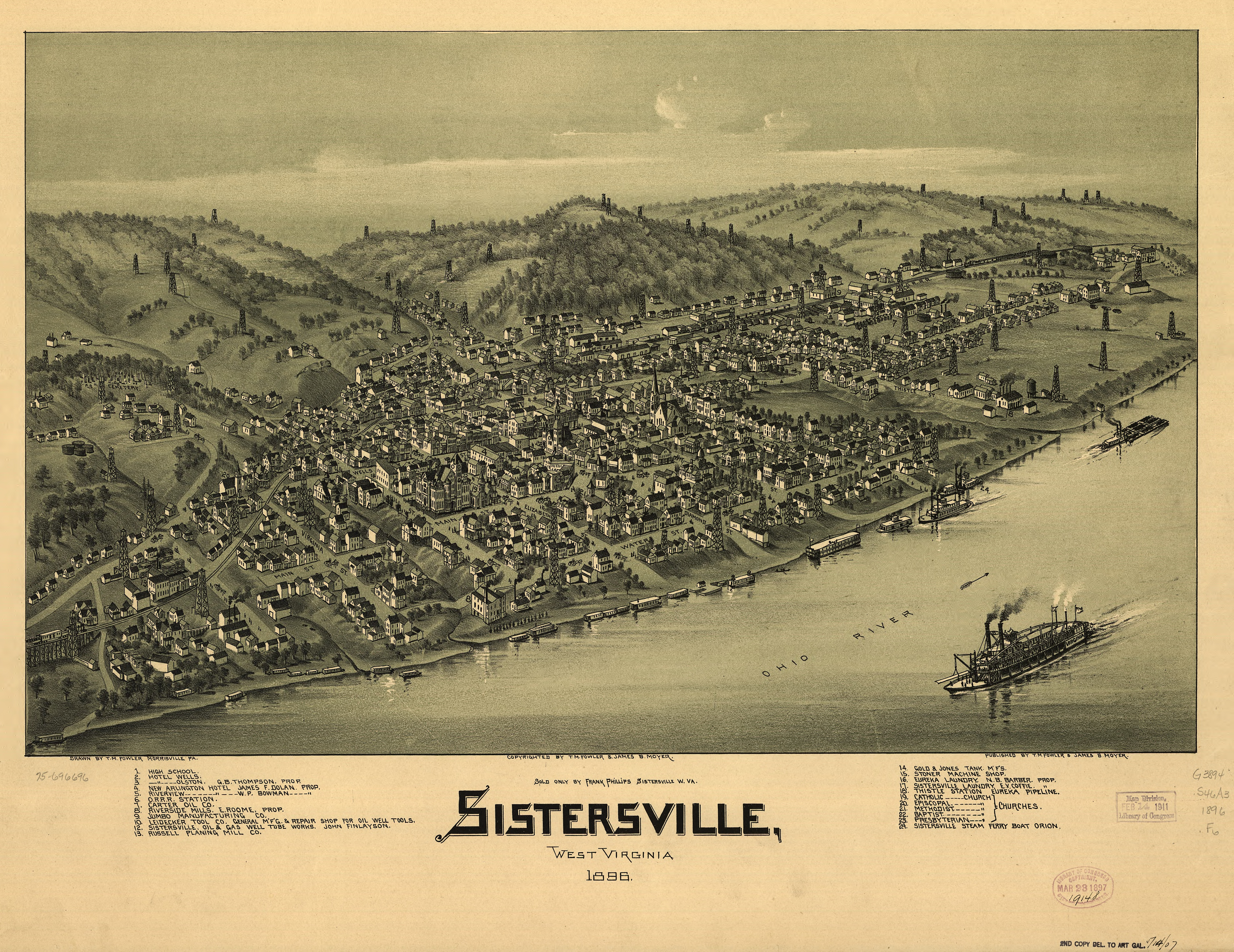 Rendered map of Sistersville, WV in 1896 drawn by T.M. Fowler (1842-1922).